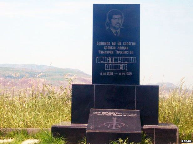 Dustmurod Ali